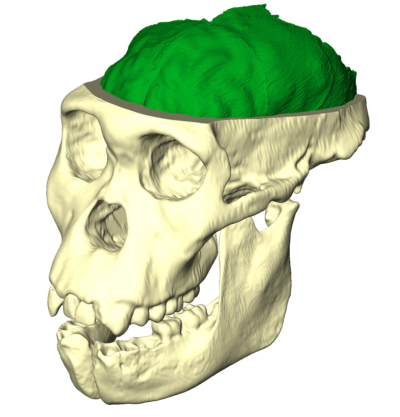 The endocast of the MH1 hominin (in green). Image created by Kristian Carlson, courtesy Lee R. Berger and the University of the Witwatersrand.